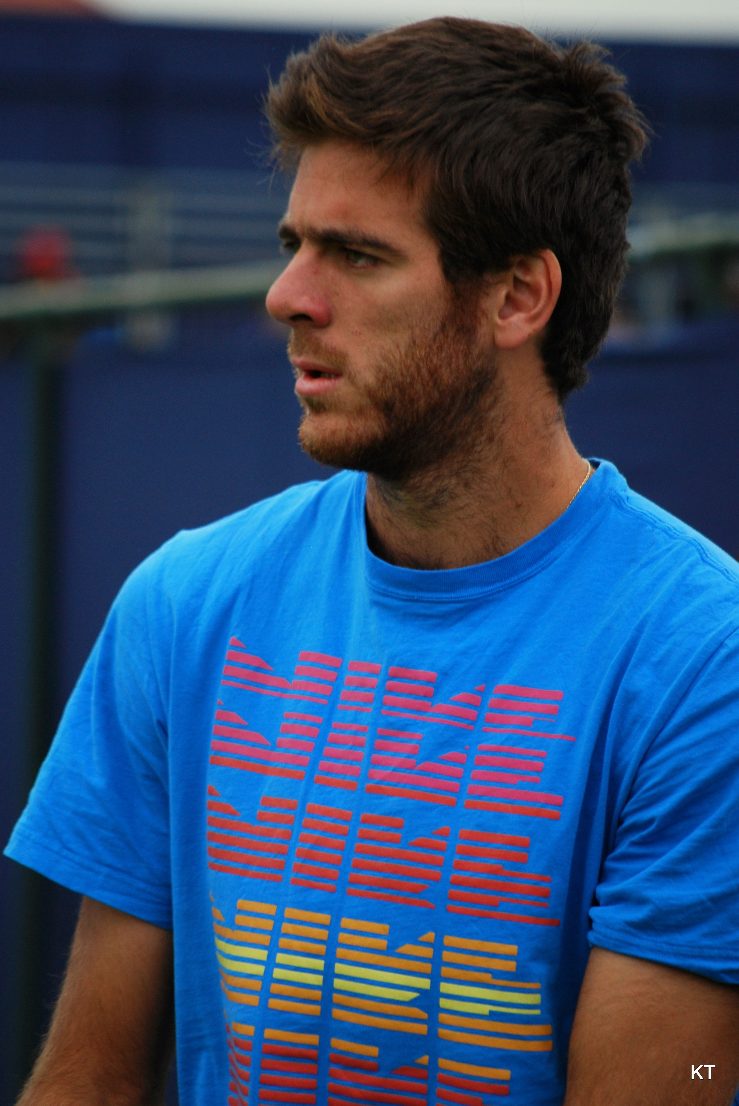 On the practice court. Day 1 of the Aegon Championships, Queen's Club 2011.